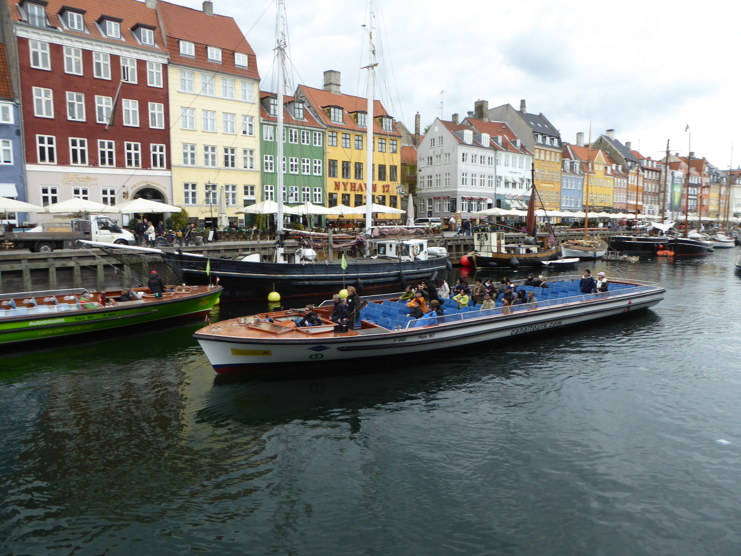 Harbour boat trips of Canal Tours in Nyhavn in Copenhagen.